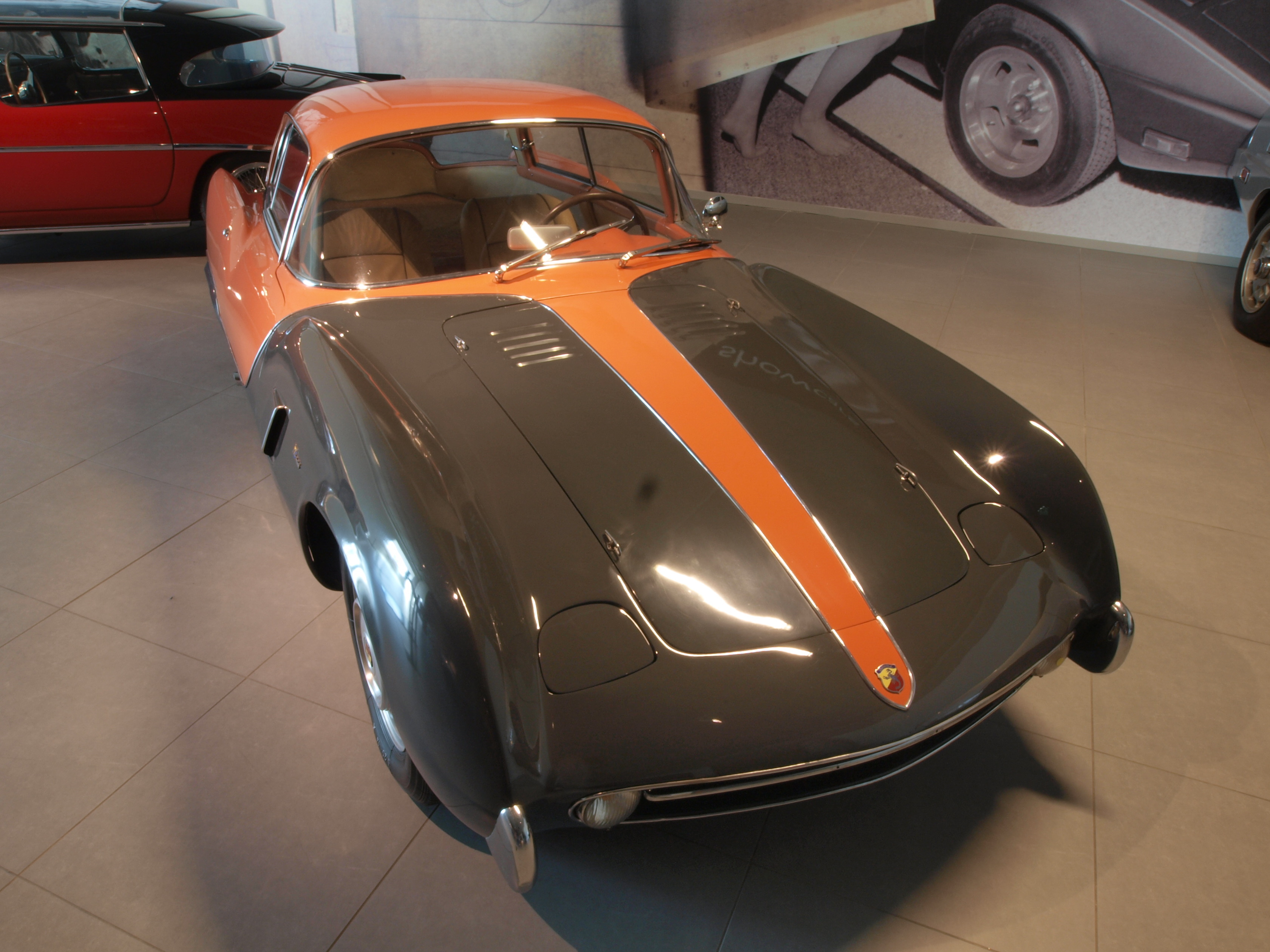 Photographed at the Louwman museum / Louwman Collection, The Netherlands.